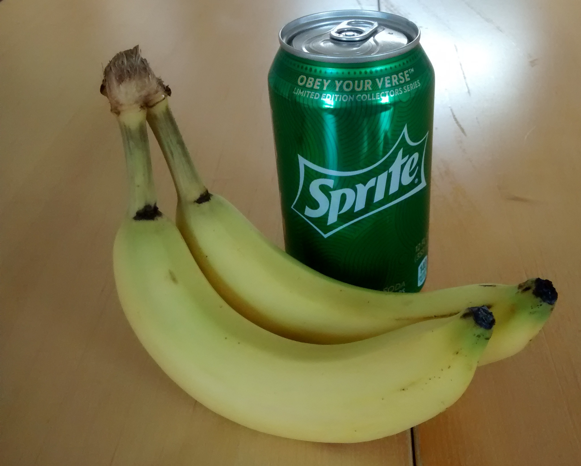 Two bananas and a can of Sprite, the materials used for the Banana Sprite challenge.